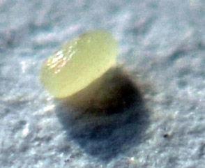 An egg of Bisselliella Tineola, on paper